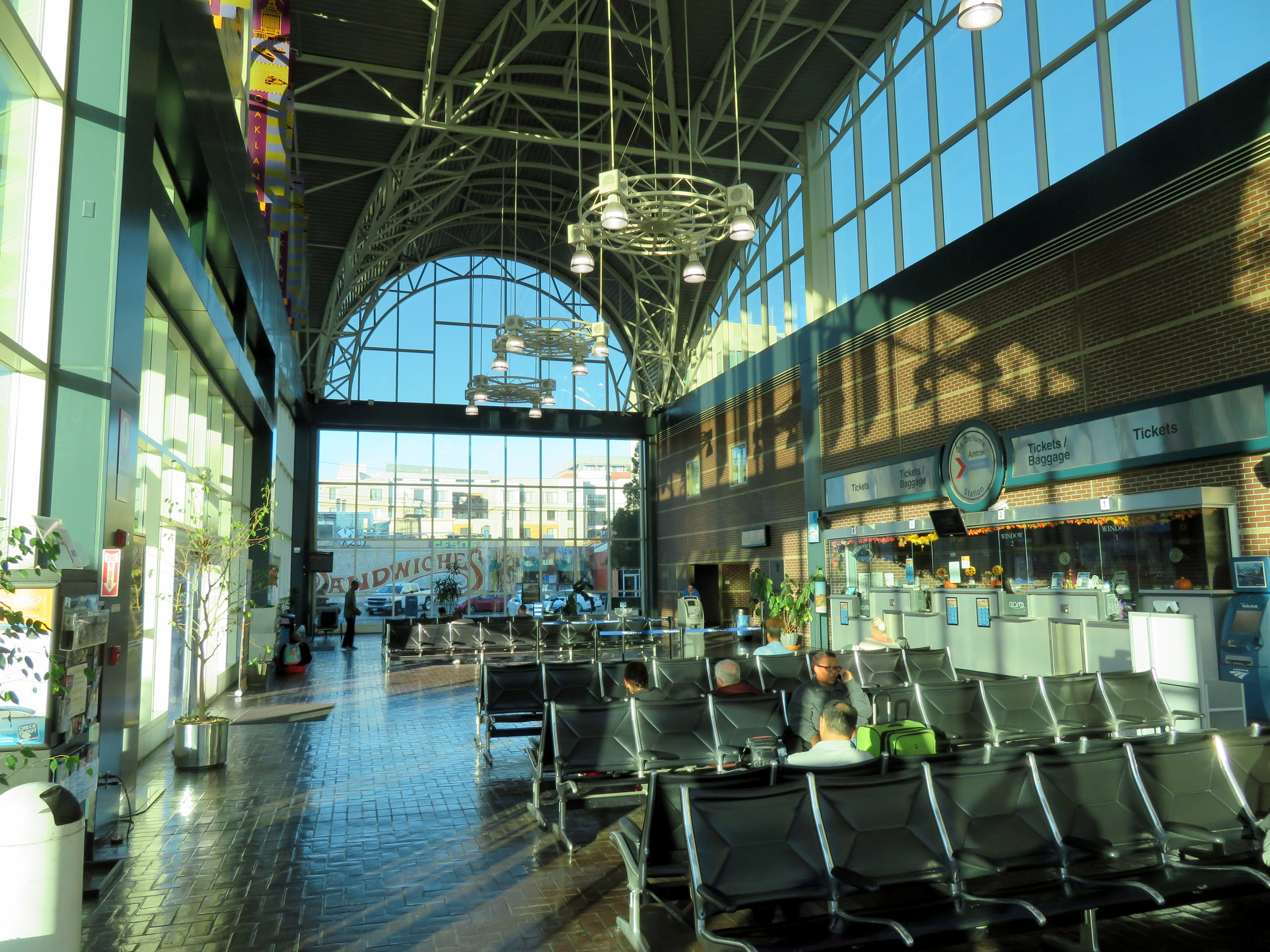 Interior of Oakland – Jack London Square station in October 2018